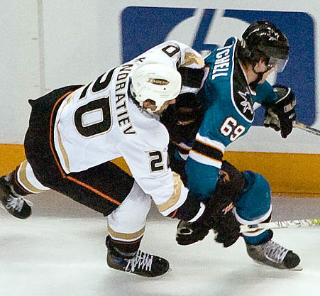 San Jose Sharks vs. Anaheim Ducks Pre-season game 9/21/2007